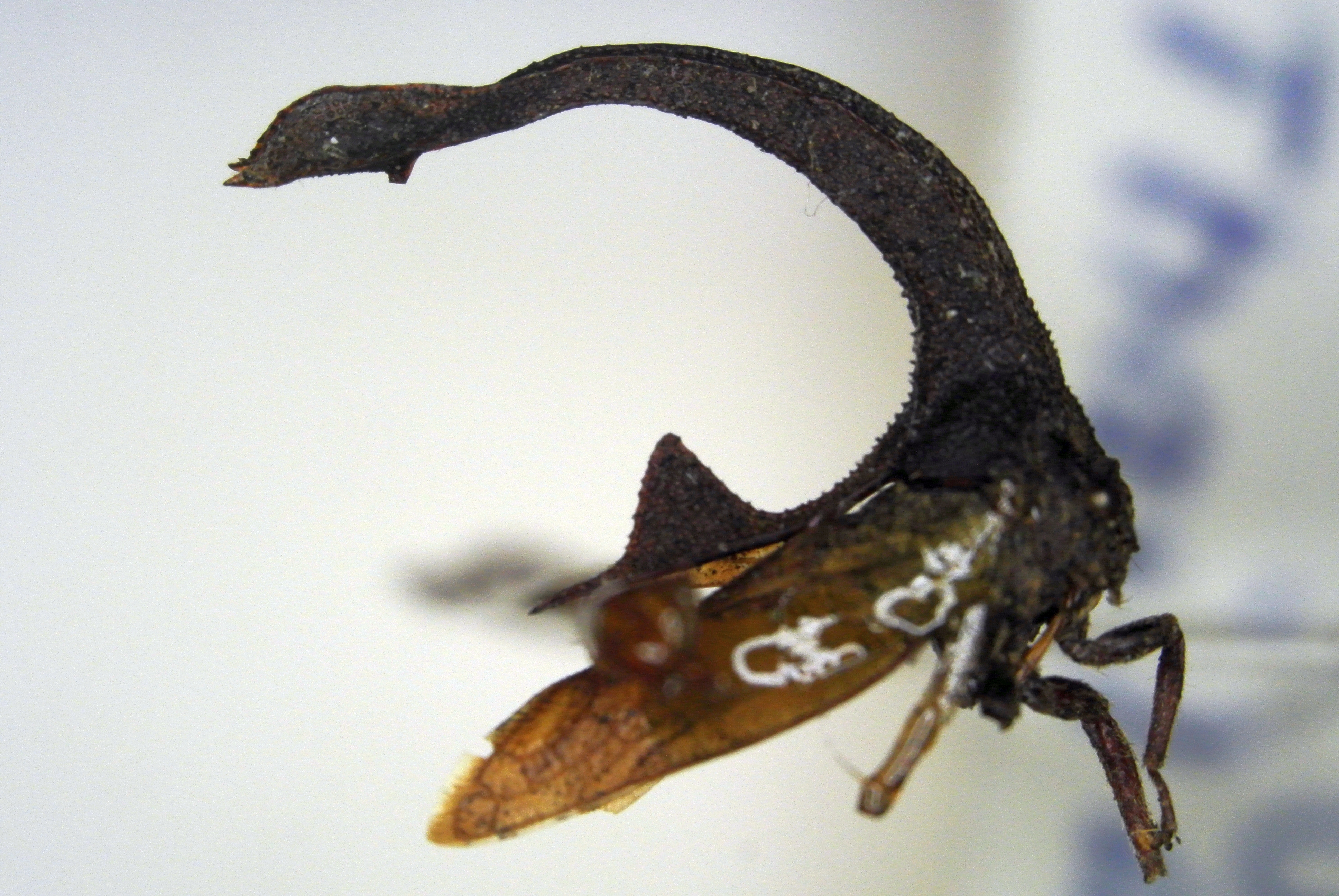 Treehopper of the species Hypsauchenia hardwickii (Kirby) from Thailand from the Zoolotgische Staatssammlung München